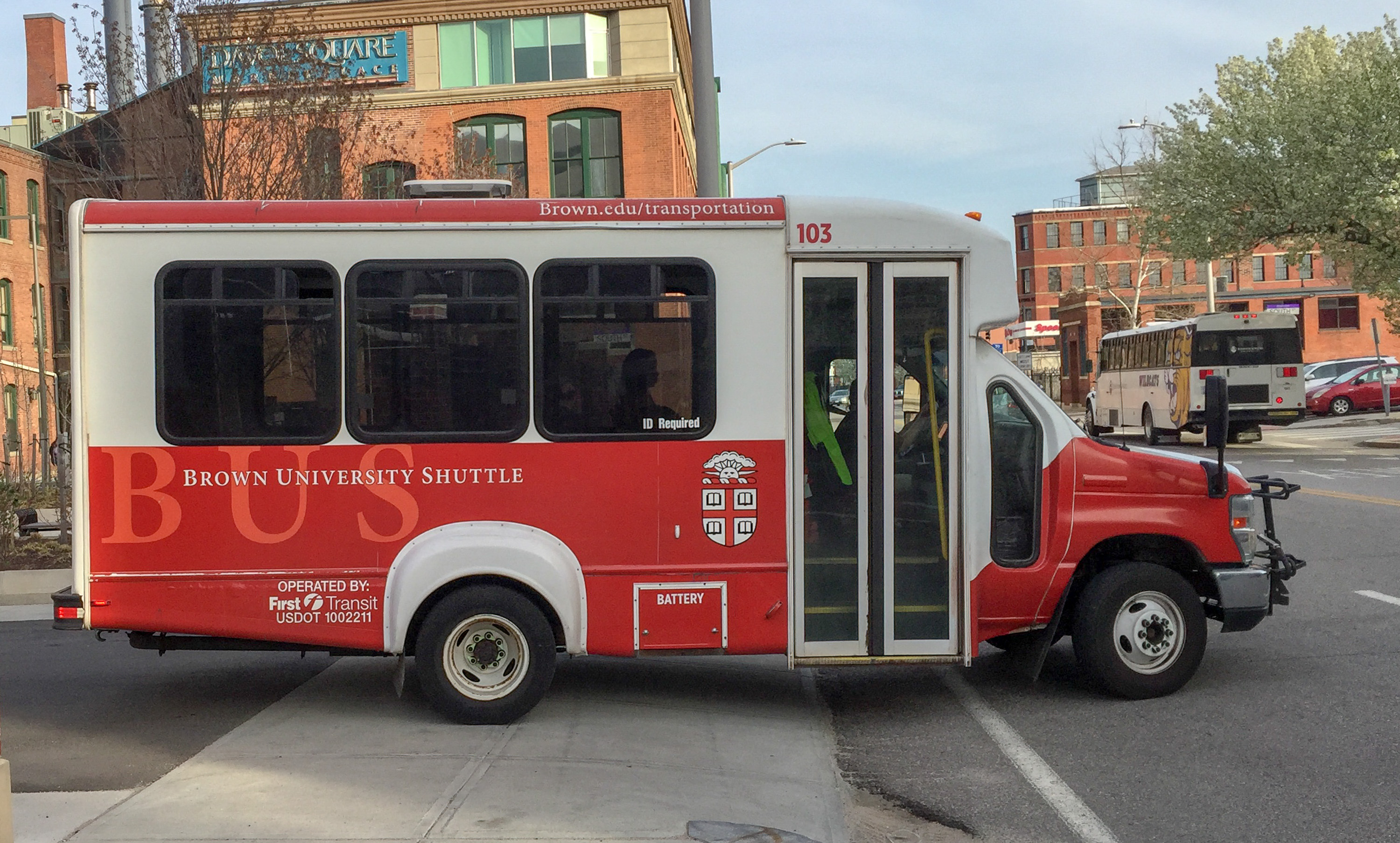 Brown University shuttle bus